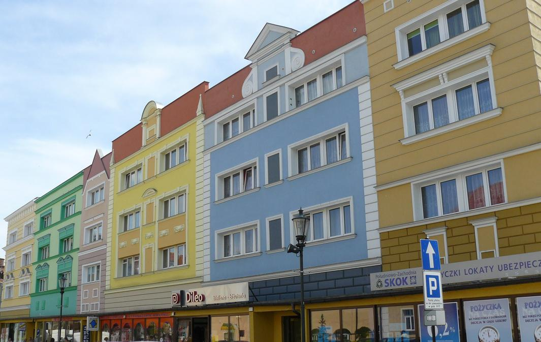 Zary - revitalisation of socialistic houses in Old Squere.